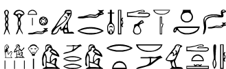 Text of stela 31664 from Field Museum of Natural History (Chikago)